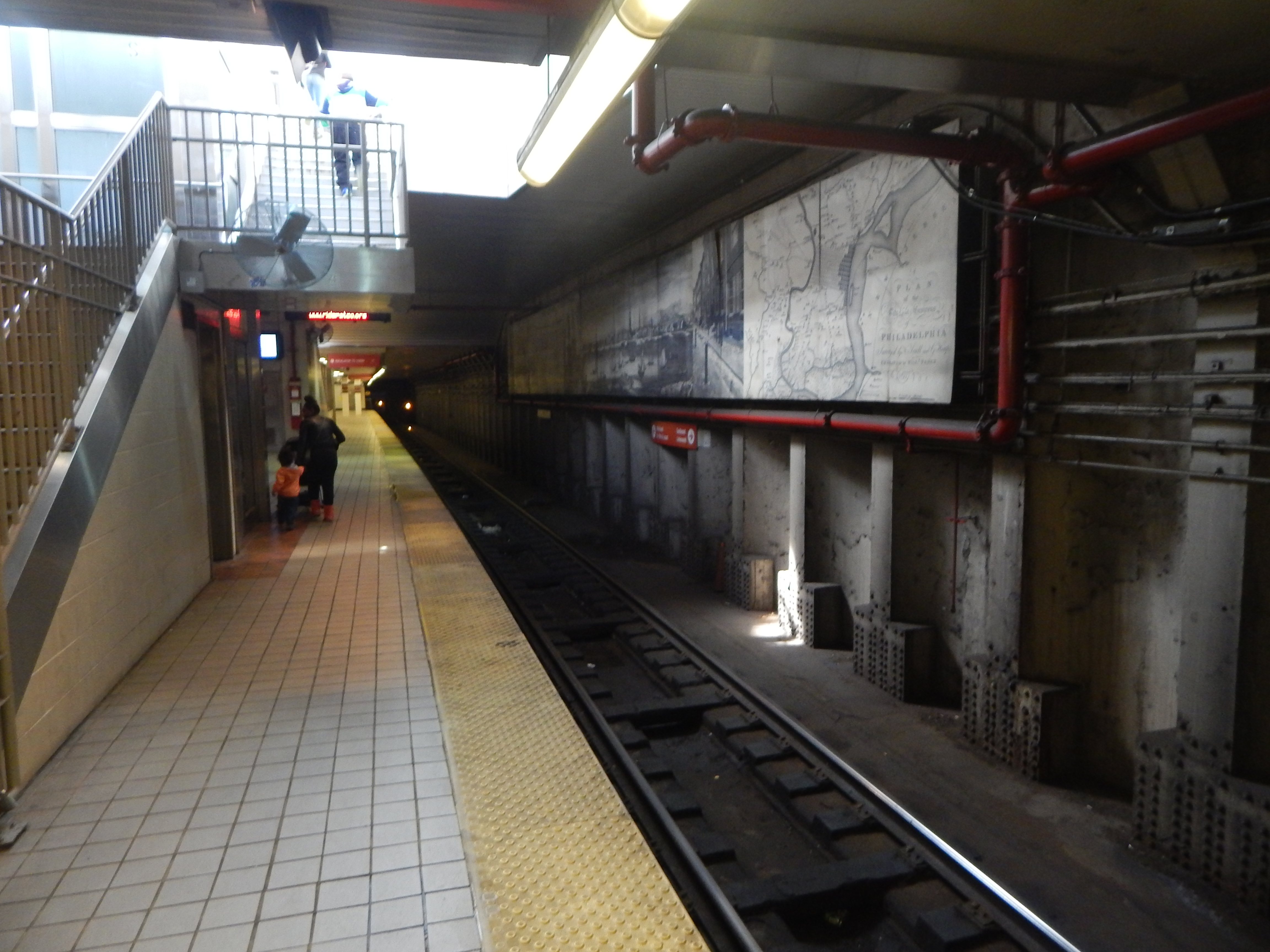 The PATCO Broadway station (part of the Walter Rand Transportation Center) in April 2015